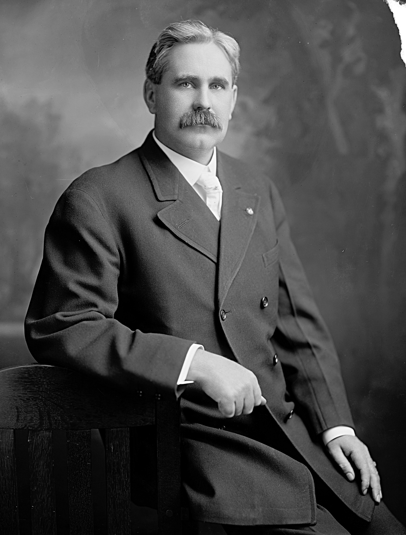 James H. Davidson, US Representative from Wisconsin